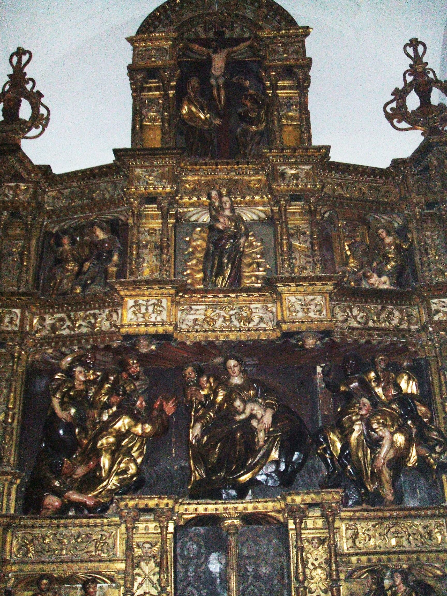 Retablo de la Epifanía, obra plateresca (S-XVI) de Alonso Berruguete, en la Iglesia de Santiago, Valladolid, España